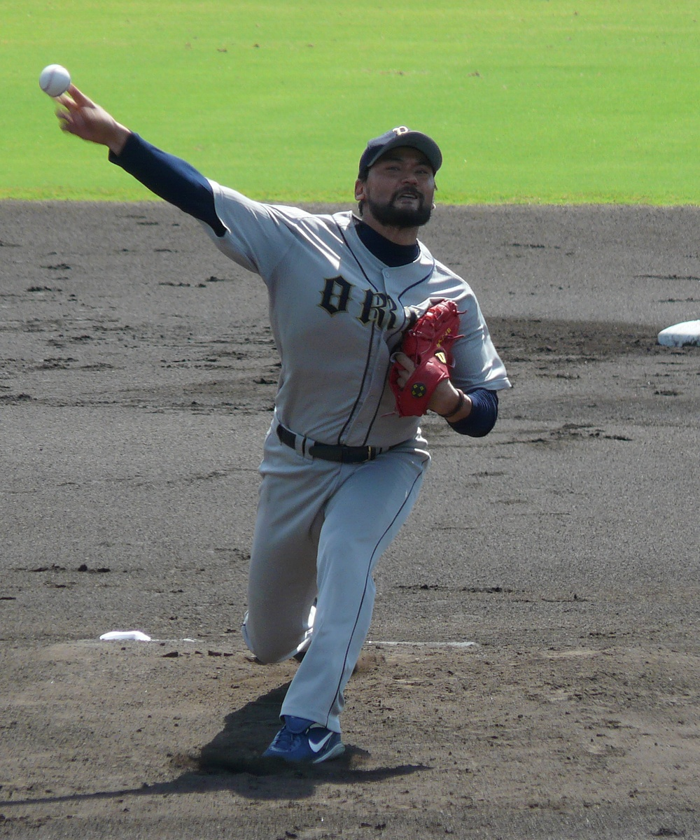 OB-Chan-Ho-Park20110924